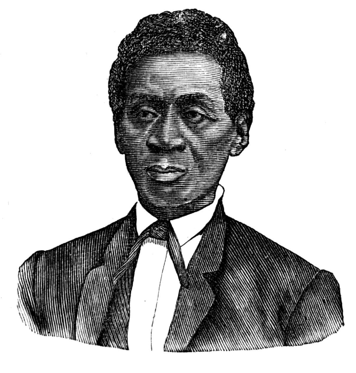 Wood Etching of Samuel Green from William Still's 1872 book "The Underground Railroad"